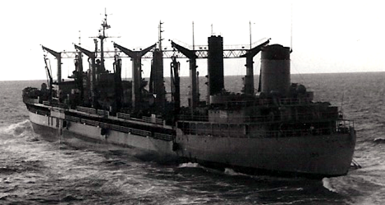 The U.S. Navy guided missile cruiser USS Chicago (CG-11), not visible, approaching the fleet oiler USS Mispillion (AO-105) at dawn for refueling in the Western Pacific, during the autumn of 1970.